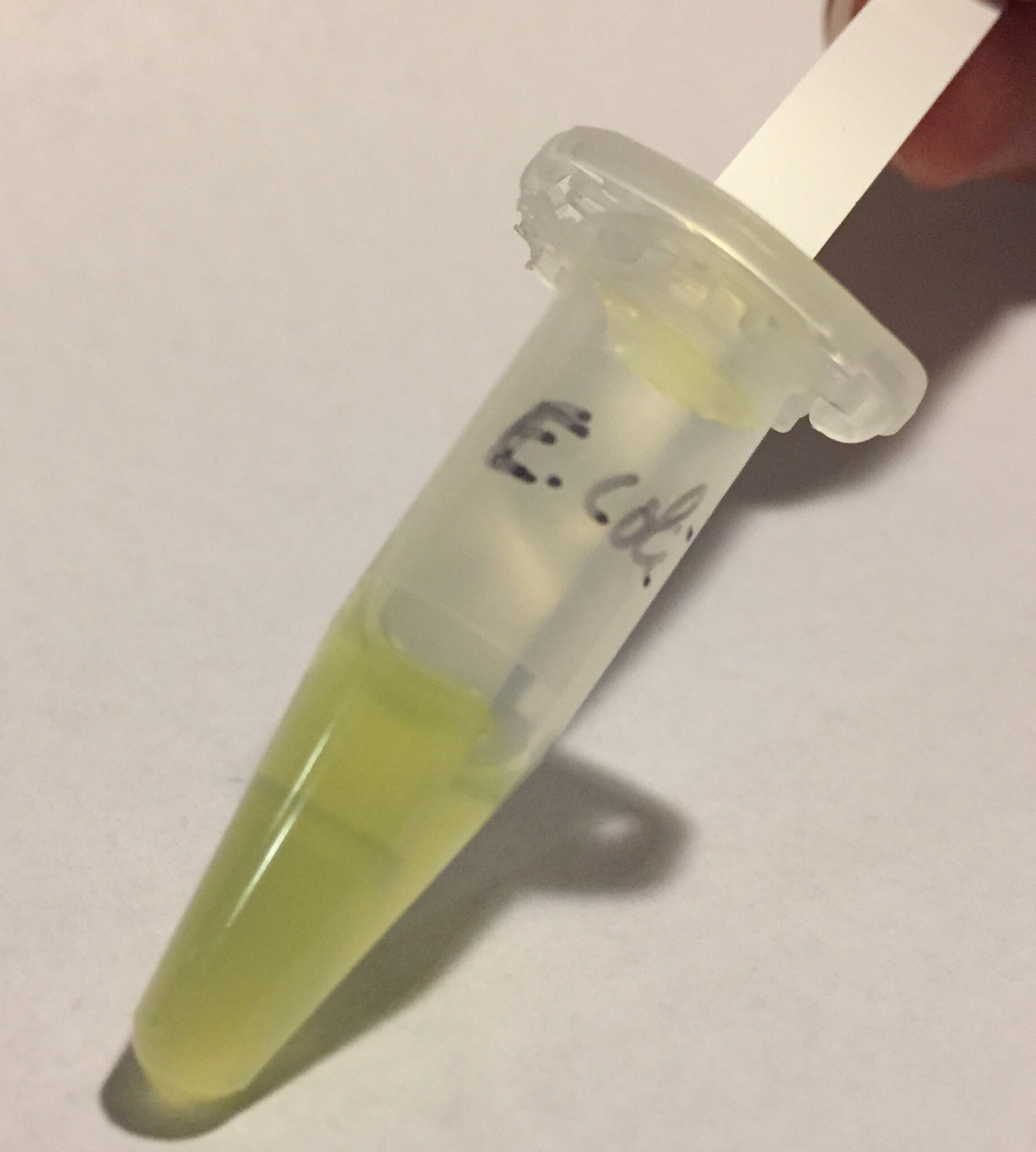 Escherichia coli in the aminopeptidase test, showing a positive result (the microorganism has the enzyme L-alanine aminopeptidase, which is able to hydrolyze the substrate L-alanine-4-nitroanilide within the test strip, to form the amino acid L-alanine and 4-nitroaniline, which causes the yellow color). A positive result of the aminopeptidase test is typical for gram-negative bacteria.